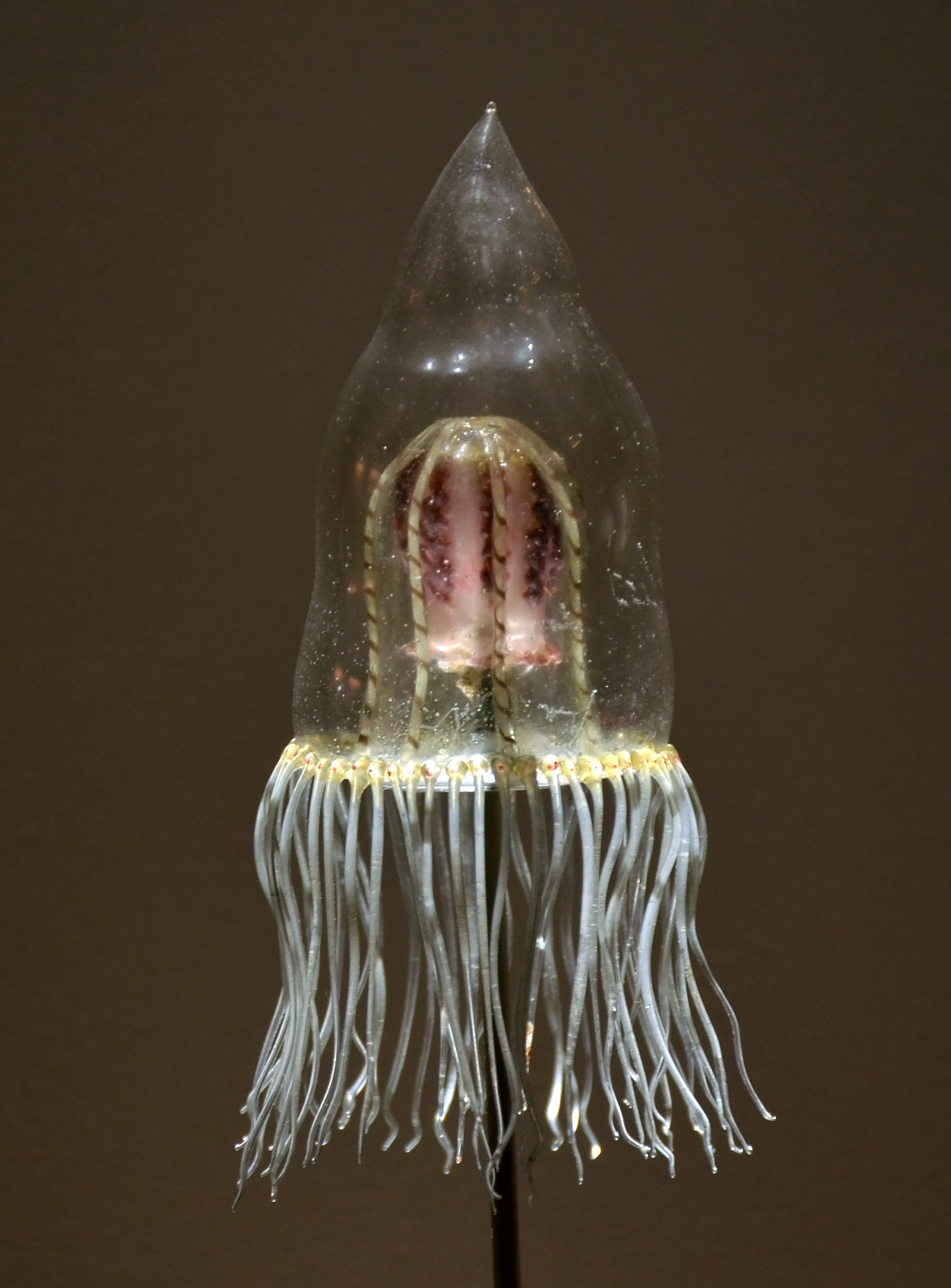 Blaschka glass model in the Muséum d'histoire naturelle de Genève : Neoturris pileata.